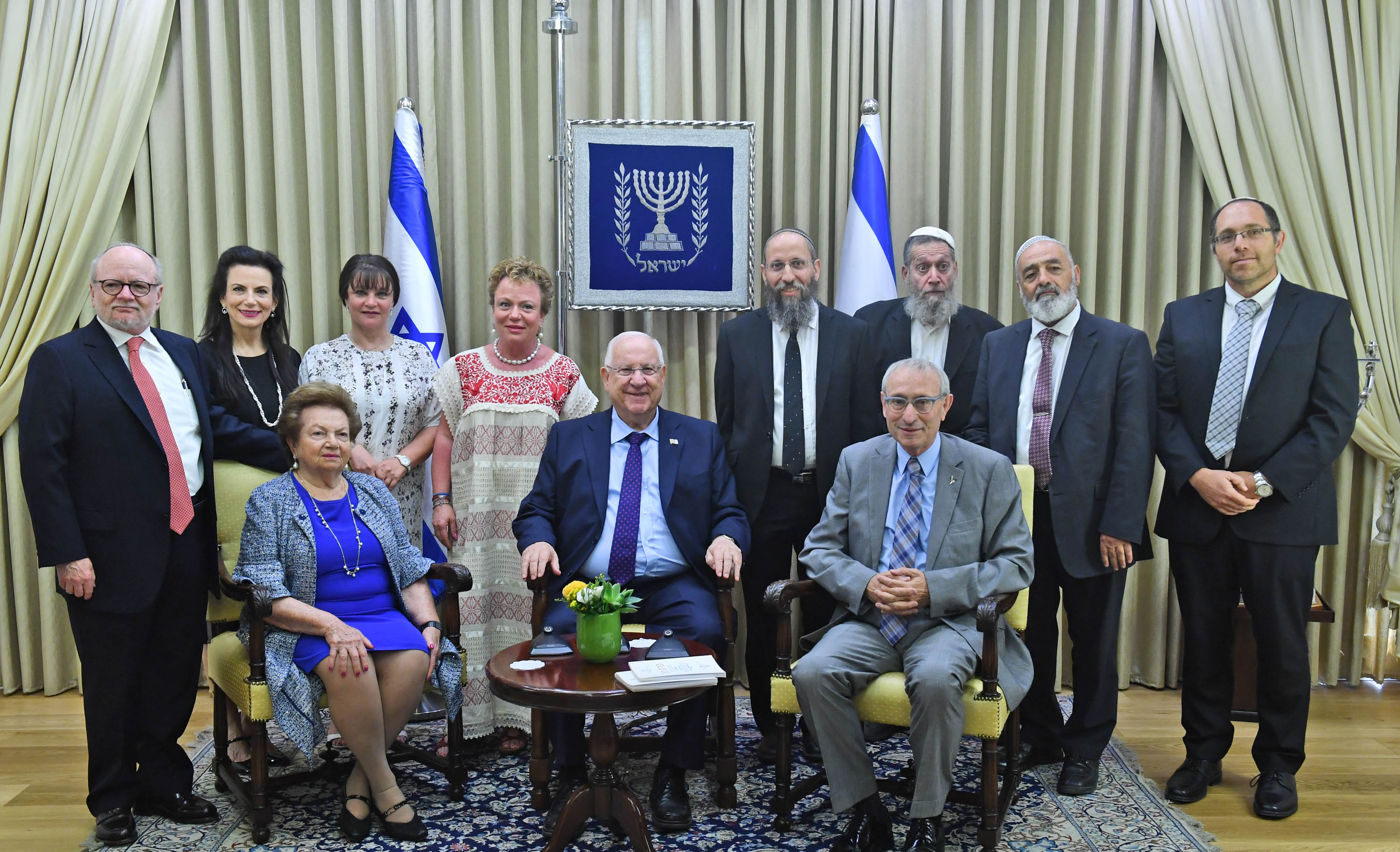 נשיא מדינת ישראל ראובן רובי ריבלין במפגש עם זוכי פרס ץ שיא המדינה נפגש היום עם זוכי פרס כץ ליישום ההלכה בחיים המודרניים תמונה קבוצתית עם הזוכים וחברי ועדת הפרס יושבים: פרופ' מנחם בן ששון נגיד האוניברסיטה העברית, נשיא המדינה ראובן (רובי) ריבלין ועדינה כץ, אשתו של מייסד הפרס מרדכי דוד (מרכוס) כץ ז